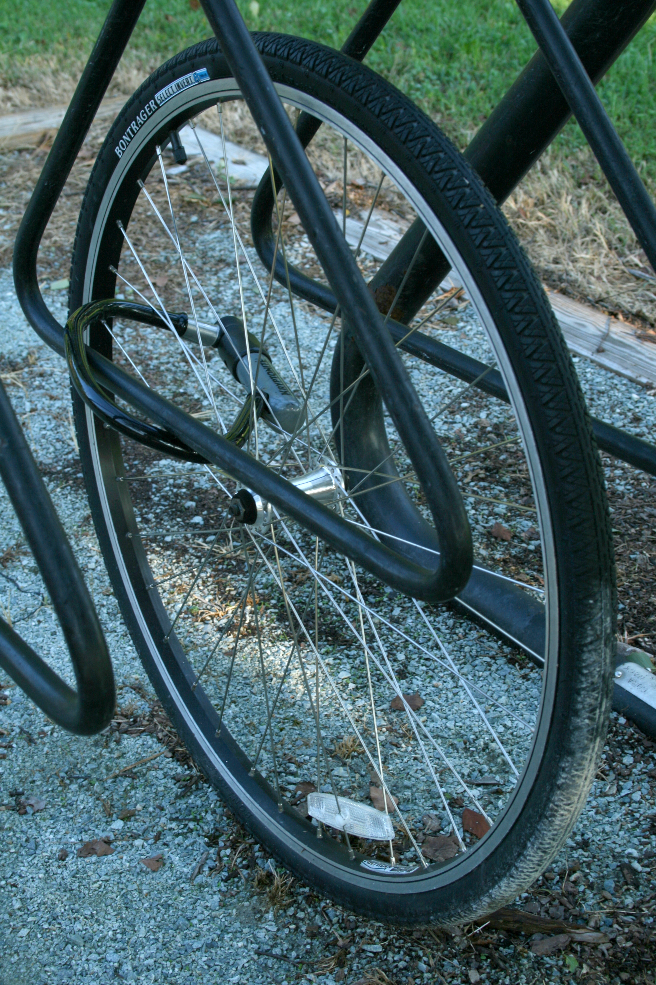 A bicycle wheel wearing a Bontrager Select Invert tire remains chained to a bike rack via a Kryptonite lock after the rest of the bicycle has been, apparently, stolen at Duke University East Campus in Durham, North Carolina.